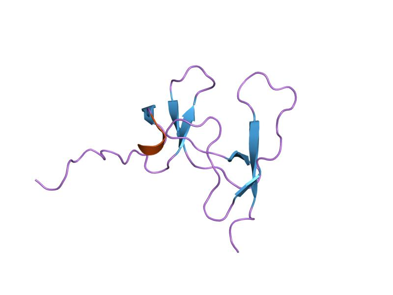 Cartoon representation of the molecular structure of protein registered with 1pcn code.